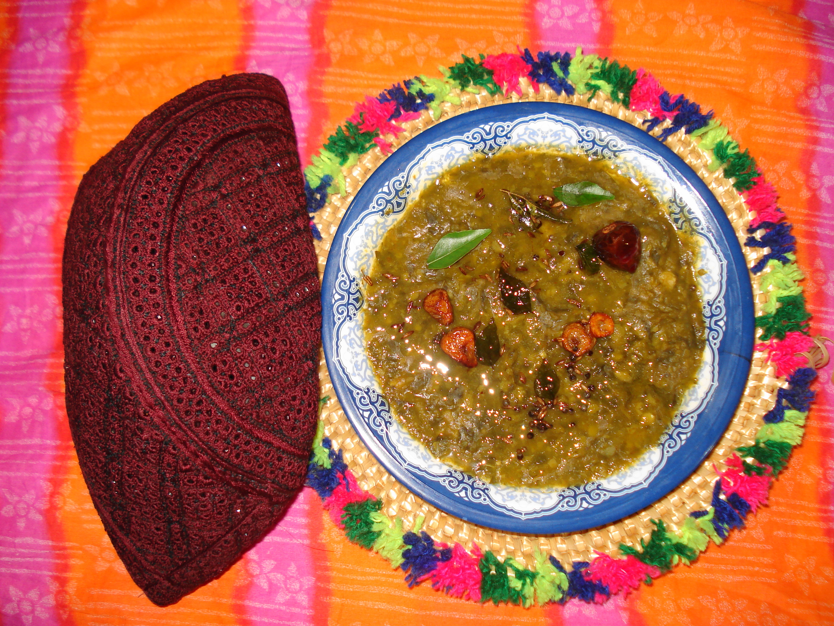 It is a very famous sidhi dish